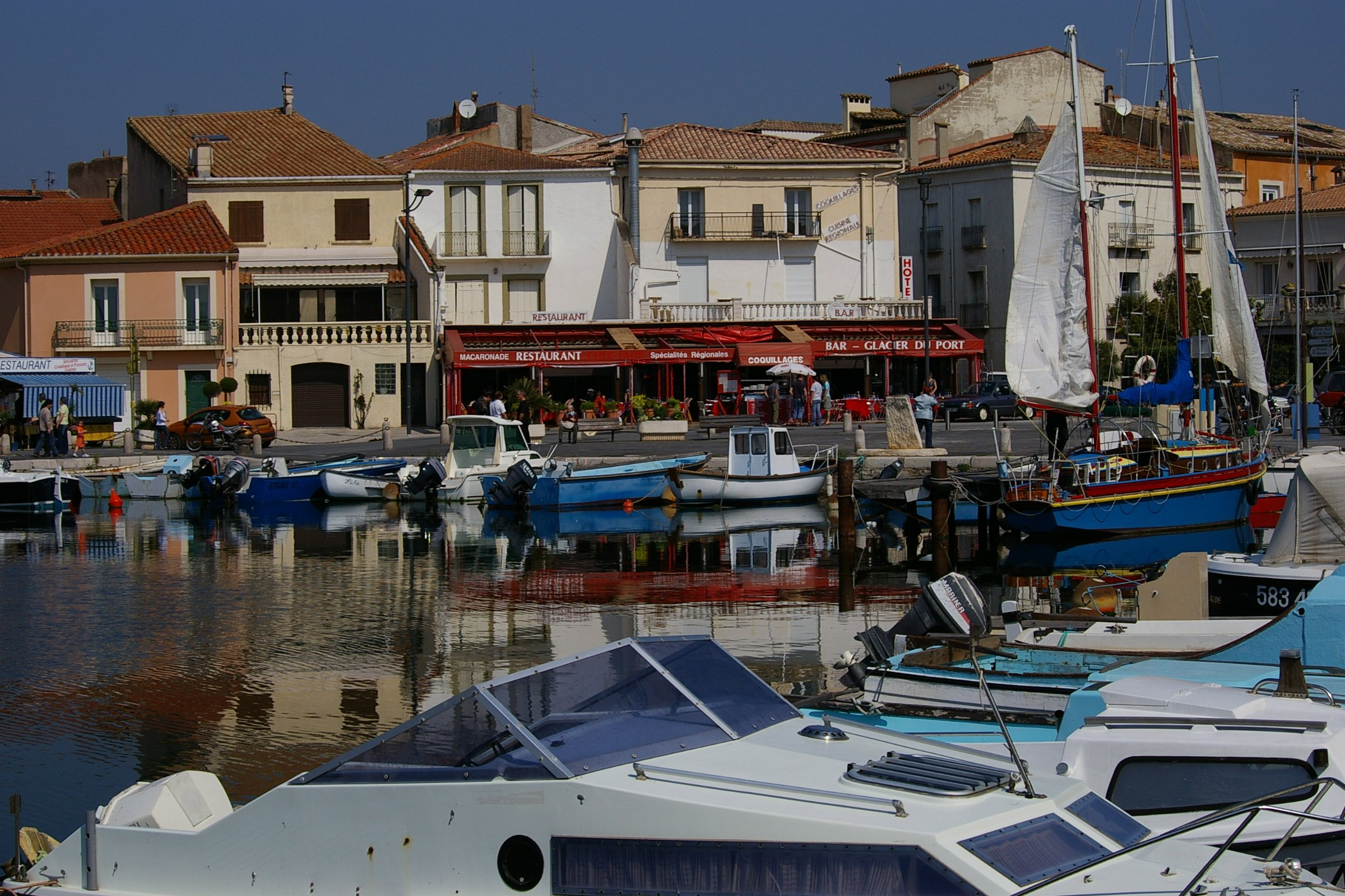 Mèze harbour, Hérault, France.